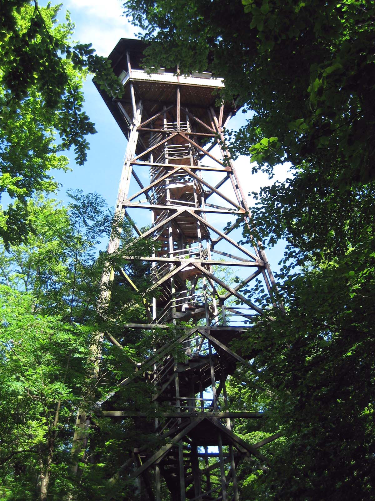 Wood tower Loorenkopf close to the top of the Adlisberg (701m)